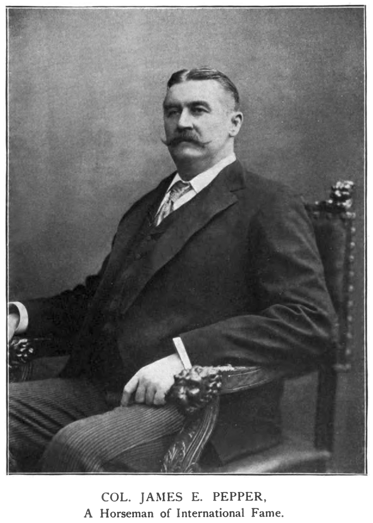 Colonel James E. Pepper, Master Distiller & Horseman